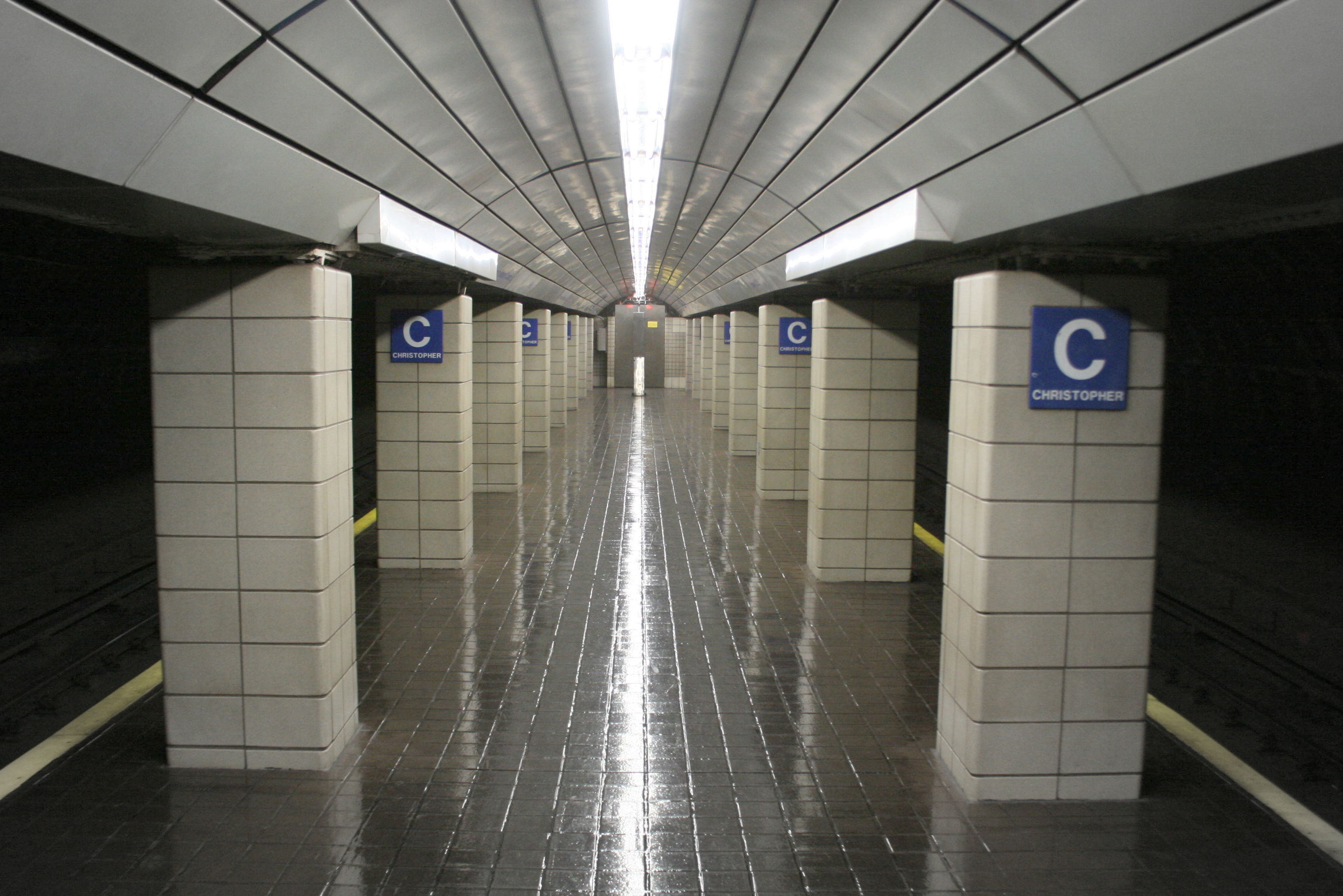 C